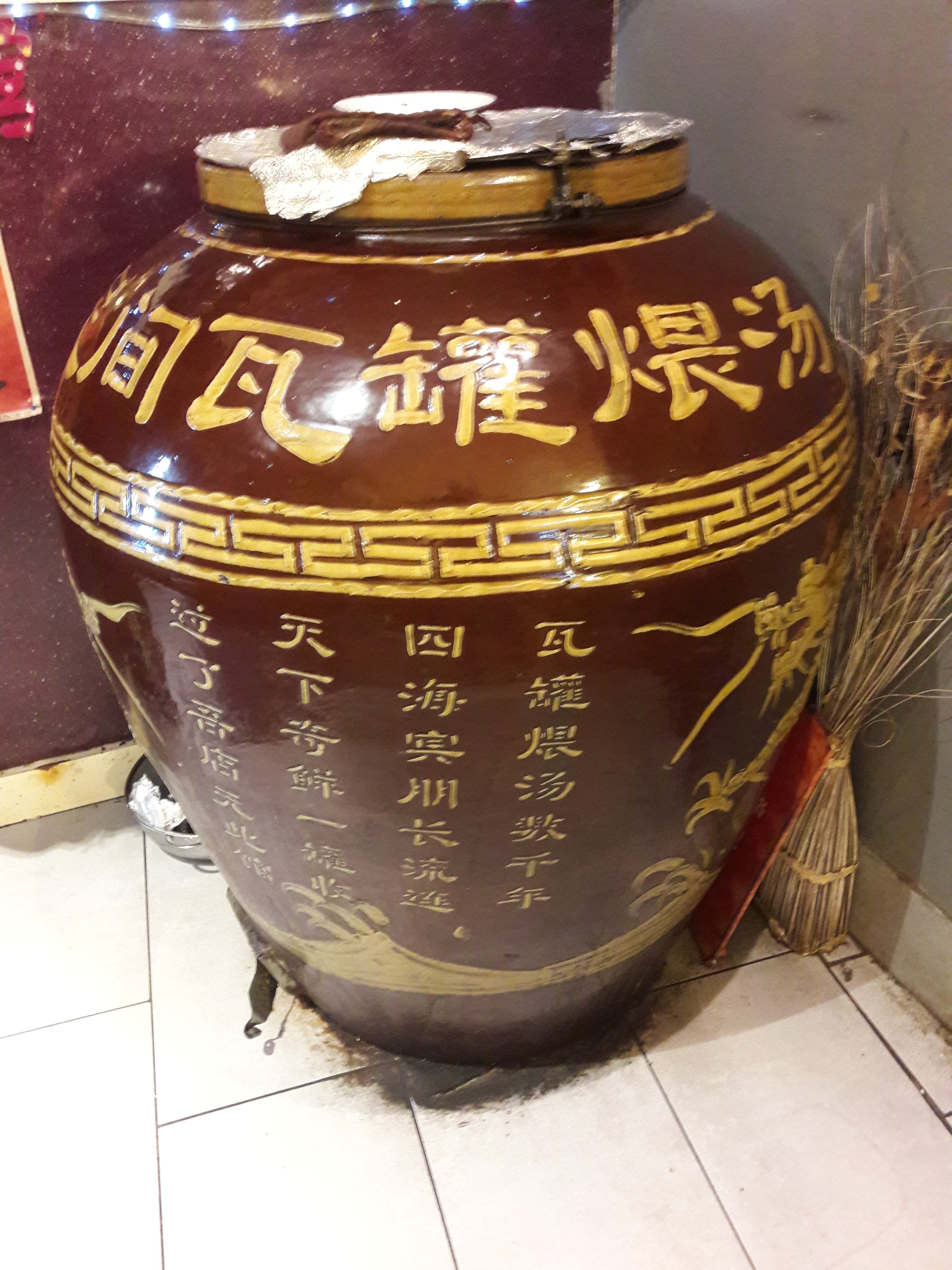 Waguan (瓦罐) in a Nanchang cuisine restaurant at Paris.